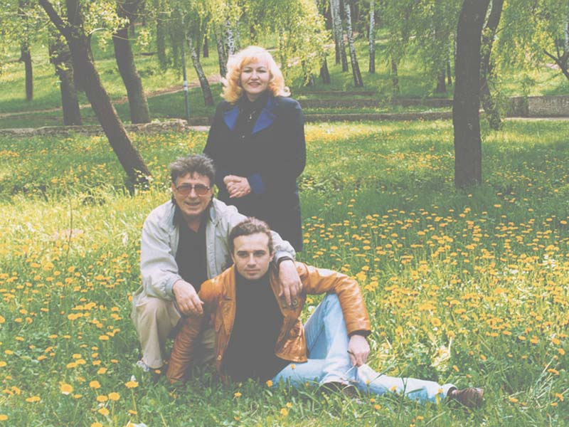 The Moldavian musicians of Dolgan.